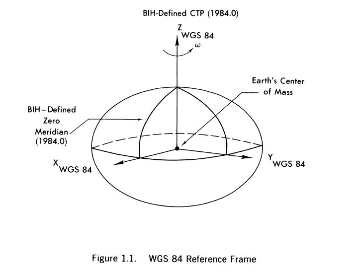 Official diagram of the WGS 84 Reference Frame.